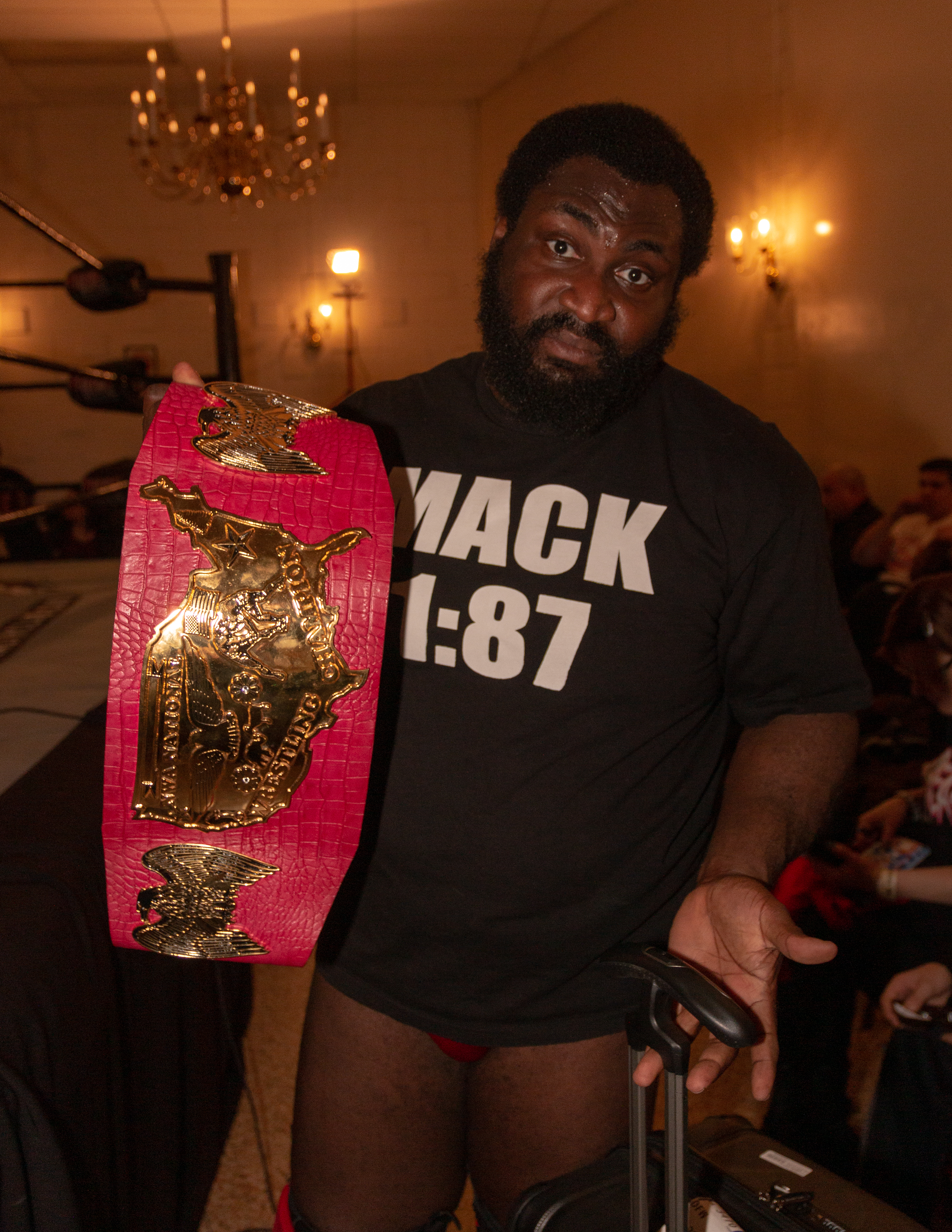 Willie Mack holding the NWA National Heavyweight Championship belt at ringside during the intermission of Alpha-1 Wrestling's Watch The Throne 2019 show